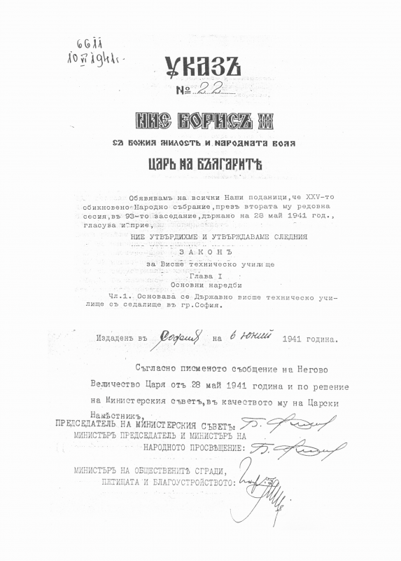 The decree of the Bulgarian Tsar Boris III, issued on 6 June 1941, on foundation of Higher Technical School (later: State Polytechnic) in Sofia, which was divided into 4 higher schools in Sofia in 1953.